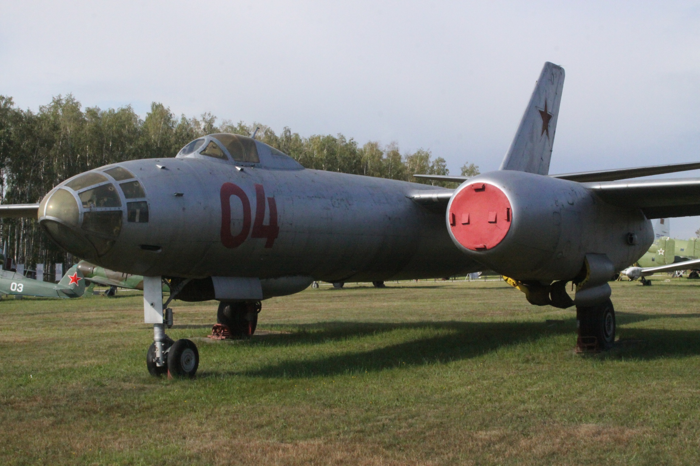 At Monino Museum